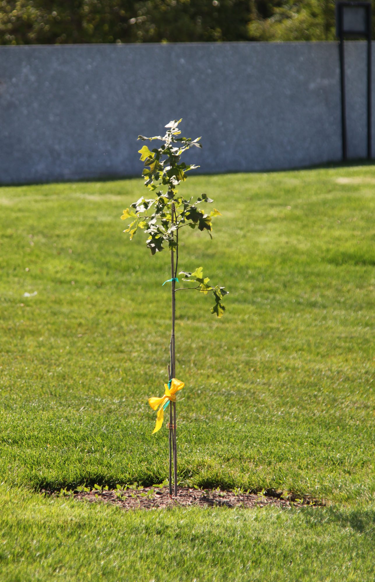 The official replacement for the "Arlington Oak" at the grave site of President John F. Kennedy in Arlington National Cemetery in Arlington County, Virginia, in the United States. The low granite wall which forms the rear of the elliptical plaza at the Kennedy grave site can be seen in the background. The 220-year-old "Arlington Oak", which stood off-center within the Kennedy memorial gravesite area, was uprooted and killed on August 27, 2011, during Hurricane Irene. The gravesite was closed to the public for two days to remove the tree and stump, but reopened on August 30. On Arbor Day, April 27, 2012, a sapling grown from an acorn of the Arlington Oak was planted at the same site. It was tied with a yellow ribbon to indicate that it was the "official" replacement Arlington Oak. Two other Arlington Oak saplings were planted nearby, while a fourth was planted in Section 26 near the Old Amphitheater and a fifth in Section 36 near Custis Walk.